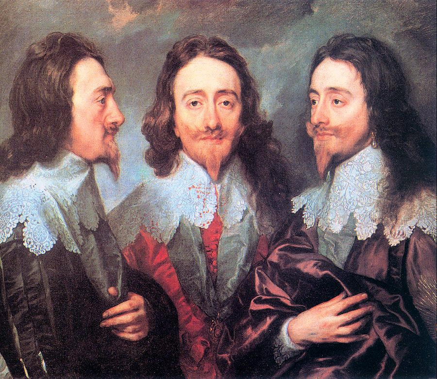 Anthony van Dyck: Charles I in three positions (triple portrait)